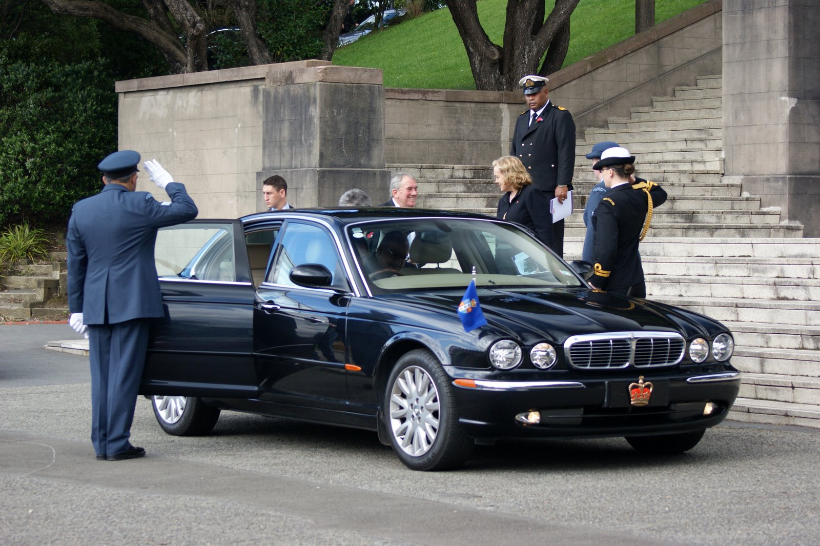 National War Memorial - Wellington - 15 Sep 2010